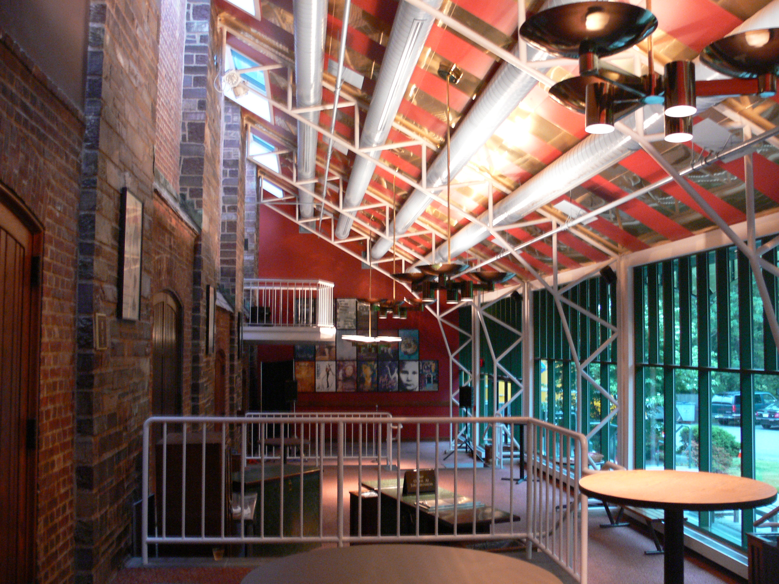 Foyer of McCarter Theatre Princeton, New Jersey